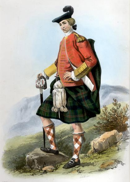 "Ulric". A plate illustrated by R. R. McIan, from James Logan's The Clans of the Scottish Highlands, published in 1845.